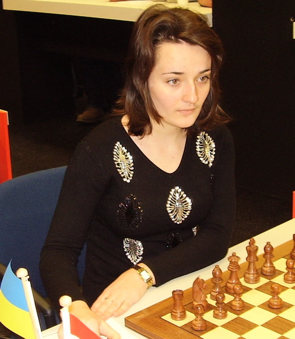 K. Lahno at Corus tournament, January 2006. Own photo.